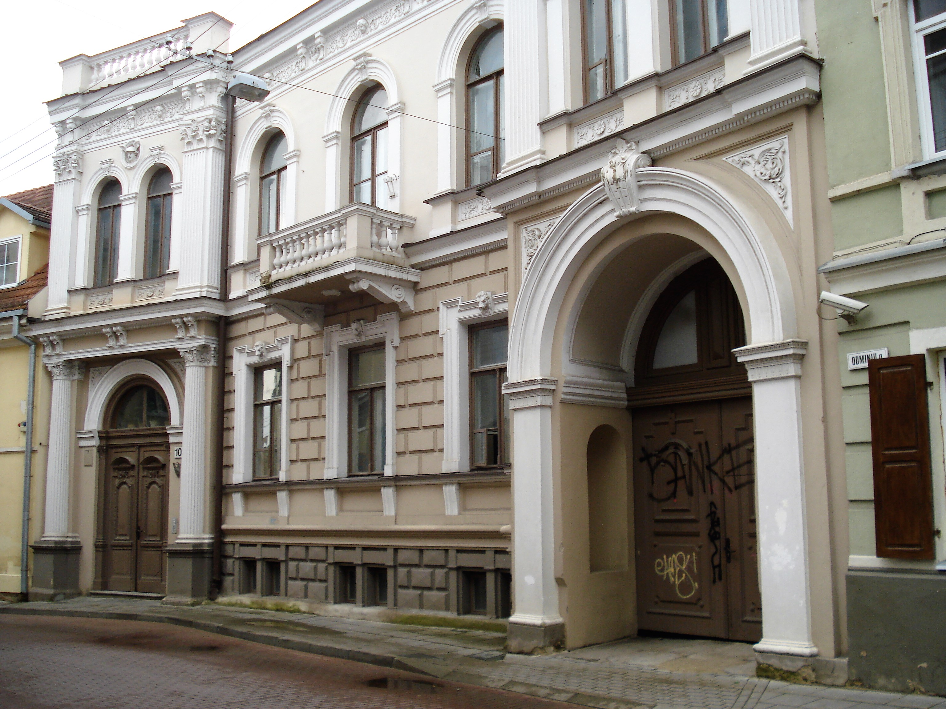 Odminių street 10 (Vilnius)